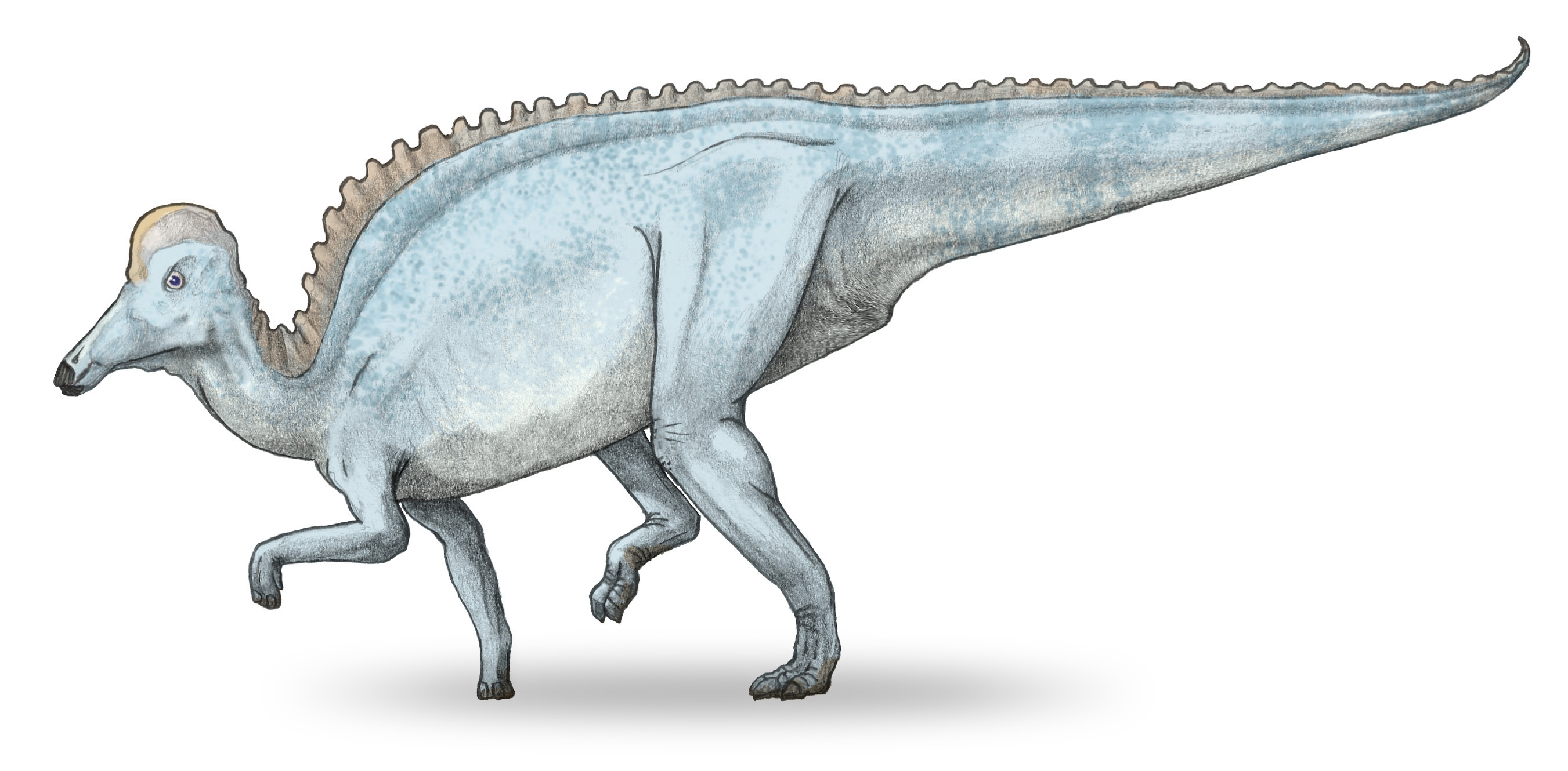 Reconstruction of an Amurosaurus.